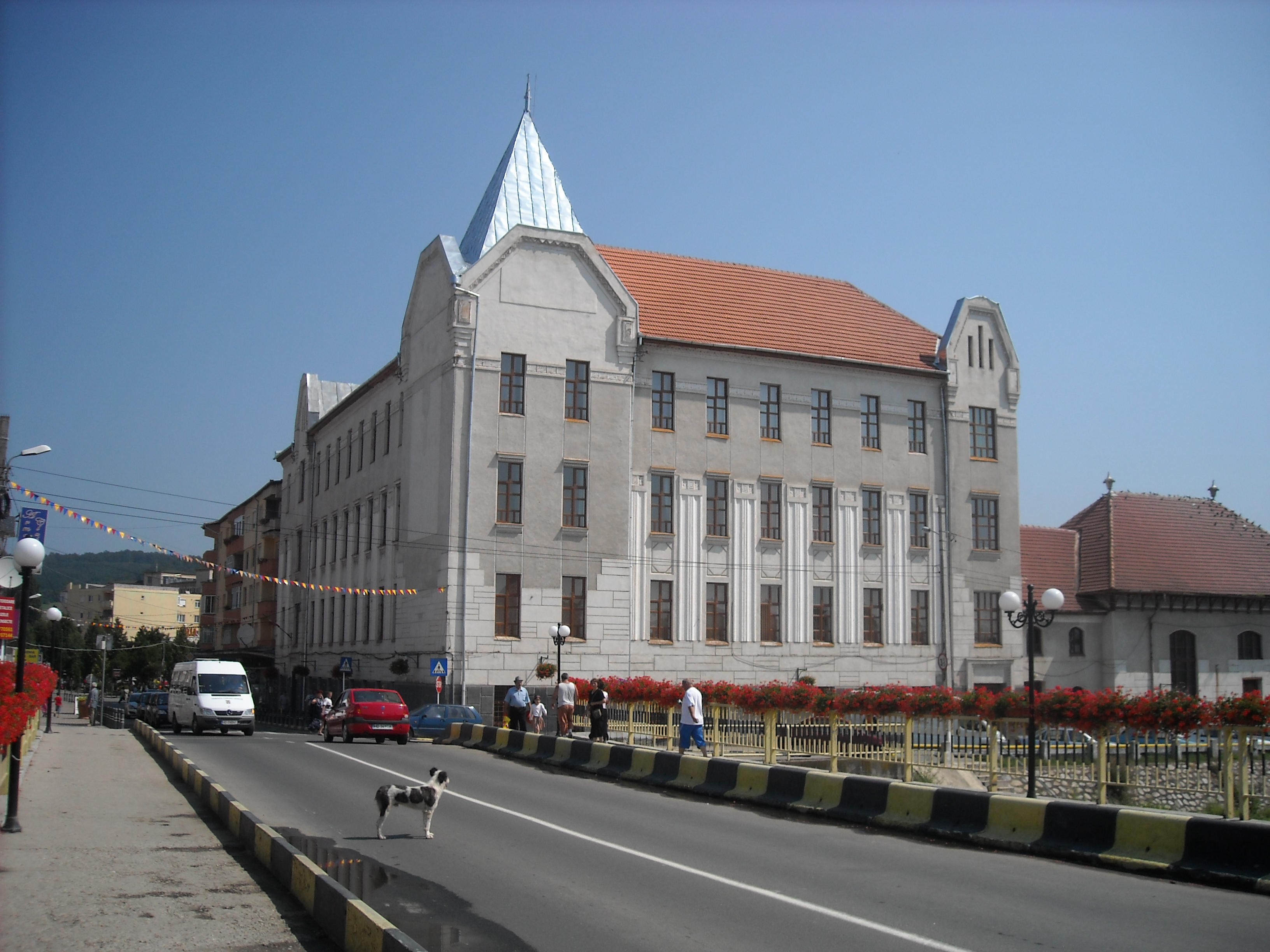 the I. C. Bratianu National College in Haţeg, Romania